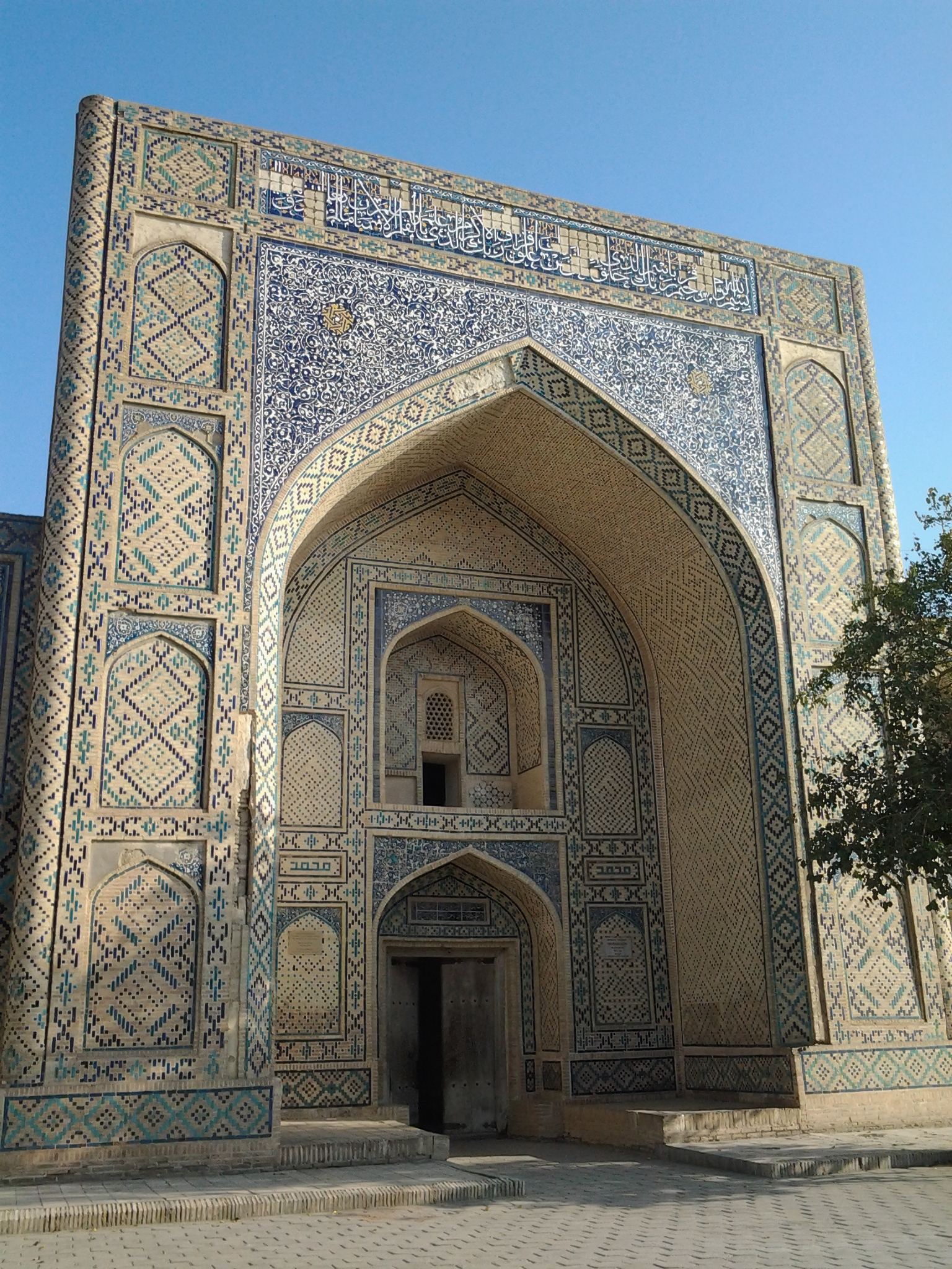 Portal (peshtoq) of Modarikhon madrasah